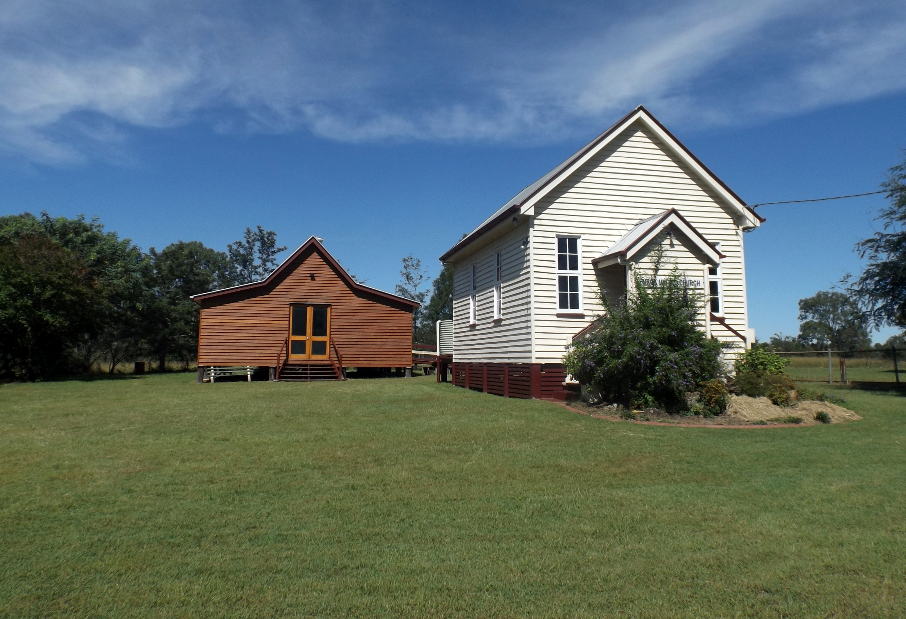 Photo of Purga United Church and hall at Purga, City of Ipswich, Queensland, Australia.